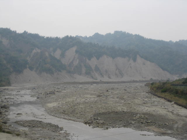 The Cingshuei River has created an undercut slope by the marked erosion of the left bank.